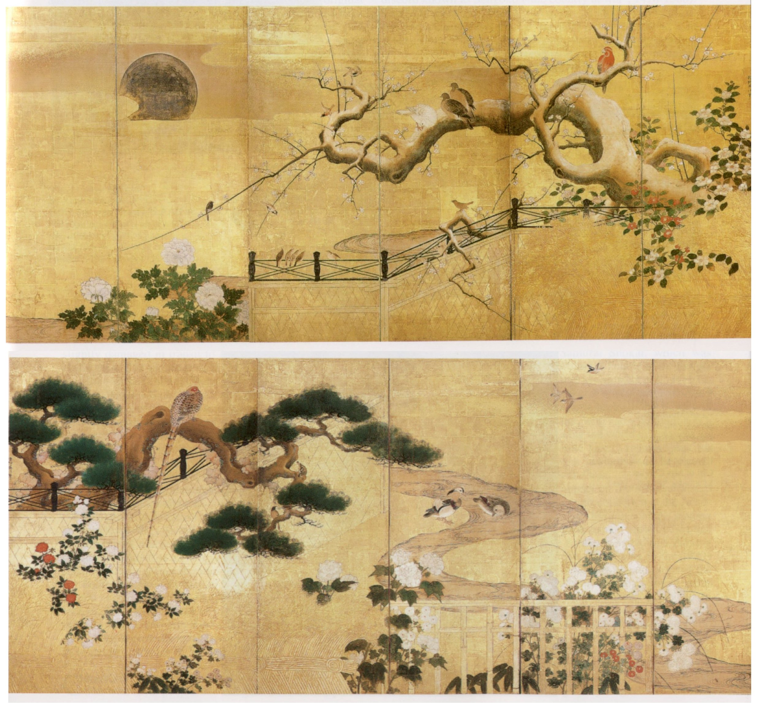 Birds and Flowers, pair of six-panel screens by Kanō Kōi, 17th centory Japan, ink, color and gold on paper, Honolulu Museum of Art, accessions 4149, 4150